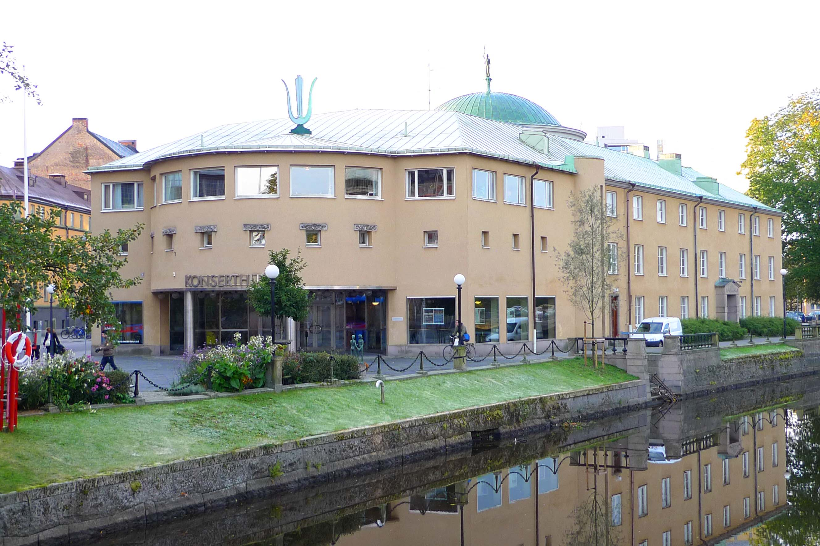 The concert hall in Örebro, Sweden